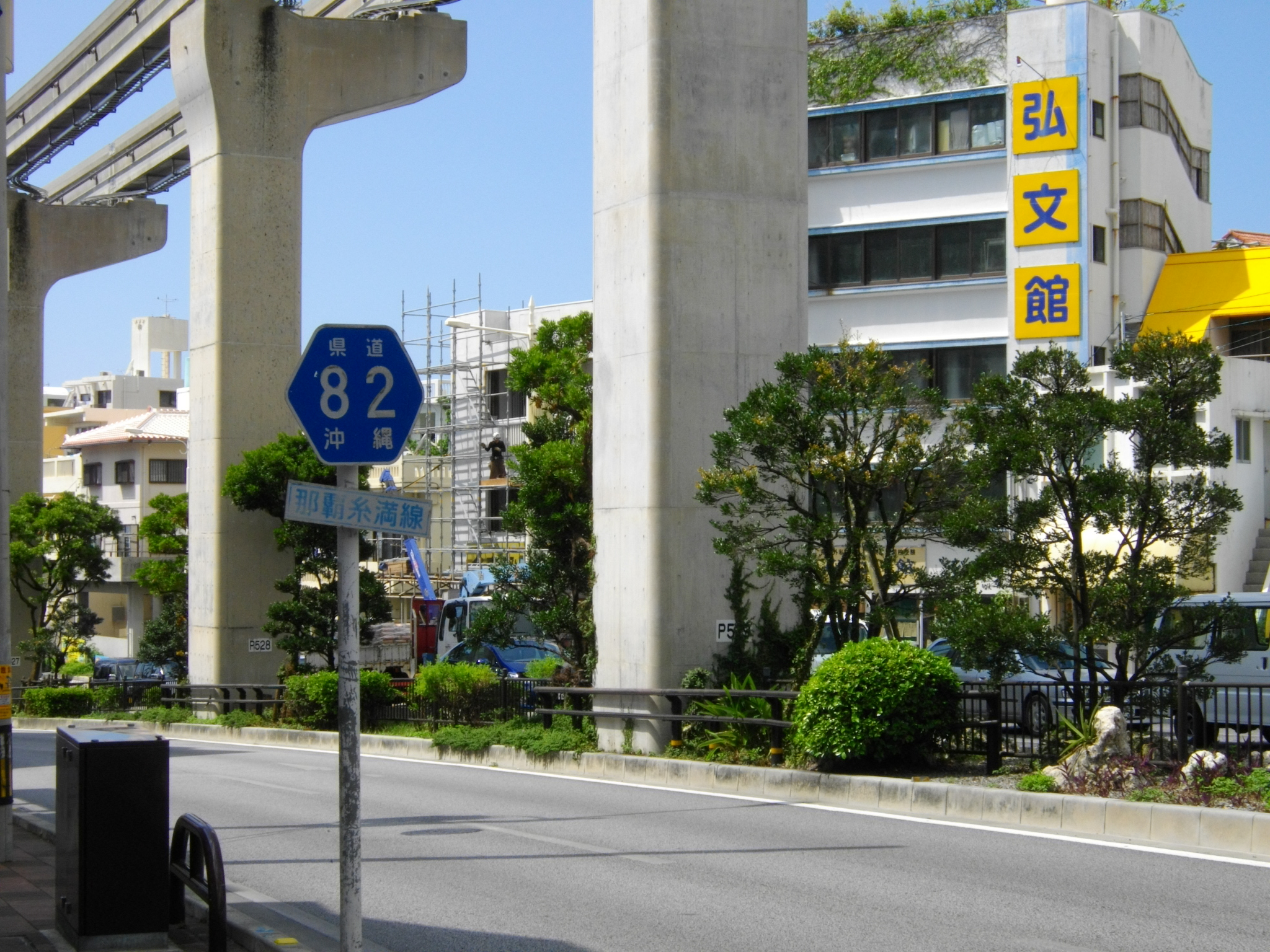 Okinawa prefectural road route 82